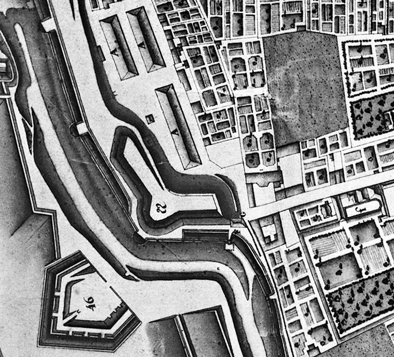 Maastricht, the Netherlands. Detail of a map showing the southwestern part of the city in 1749. The map by French military engineer Jean-Baptiste Larcher d'Aubencourt was used to built the Maquette of Maastricht (1752), now in the Musée de Beaux Arts in Lille, France. Here the area around Kat Brandenburg, a cavelier or elevation behind the second Medieval wall between Brusselsepoort and Tongersepoort, near Calvariestraat.